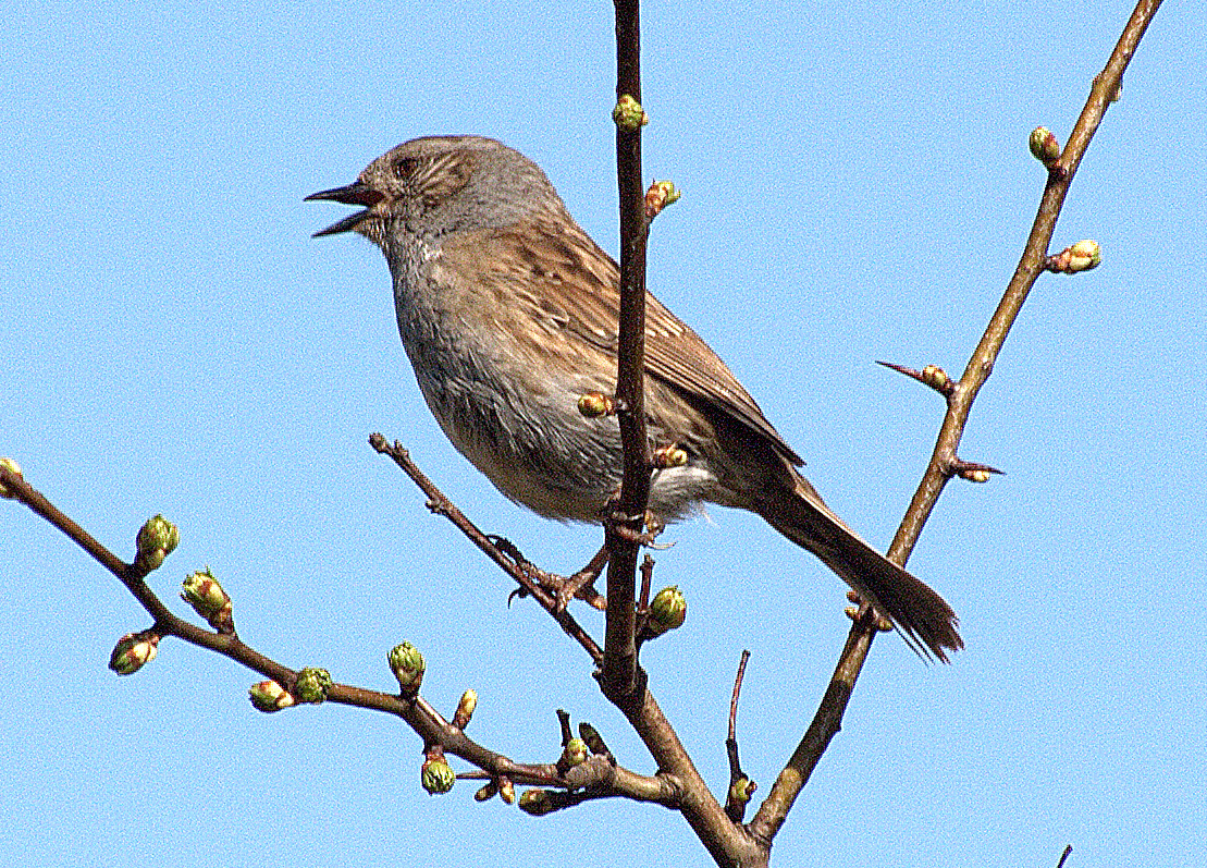 Dunnock (or Hedge Accentor), Prunella modularis, singing